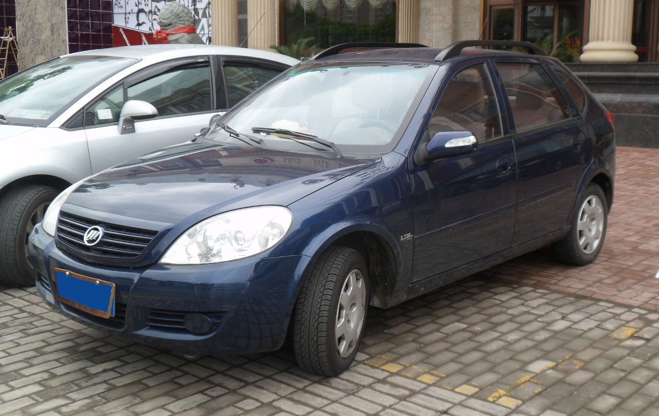 Lifan 520i photographed in Shanghai, China.